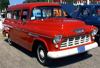 1955 Chevy Suburban